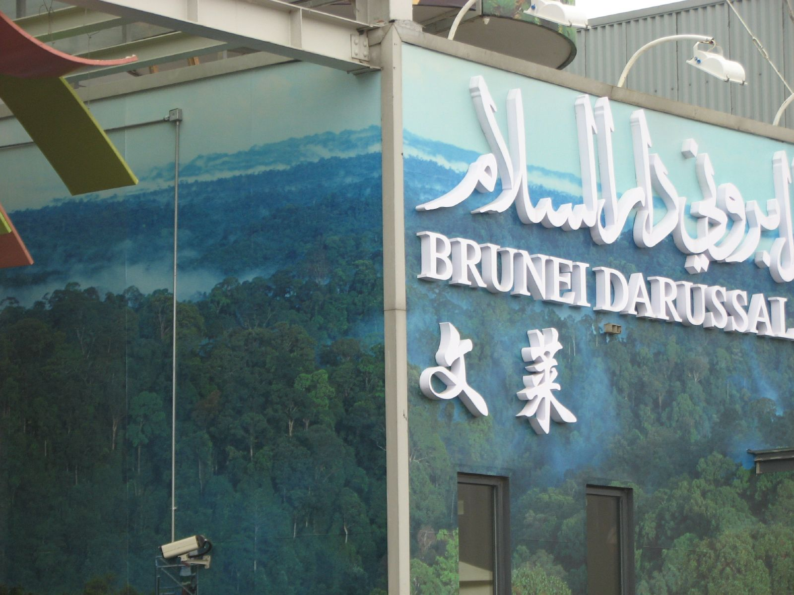 Brunei Pavilion of Expo 2010